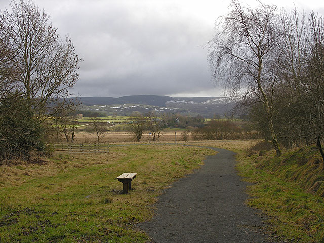 The Ystwyth Trail at Ystrad Meurig Here following the old railway line and approaching the site of Strata Florida station, where it merges with the existing nature trail following the railway across Cors Caron (Tregaron Bog).